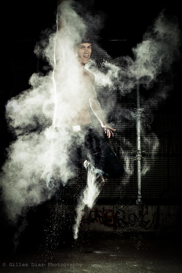 This photo of Powder Photography was was taken during the night by Gilles Diaz and 2 assistants at